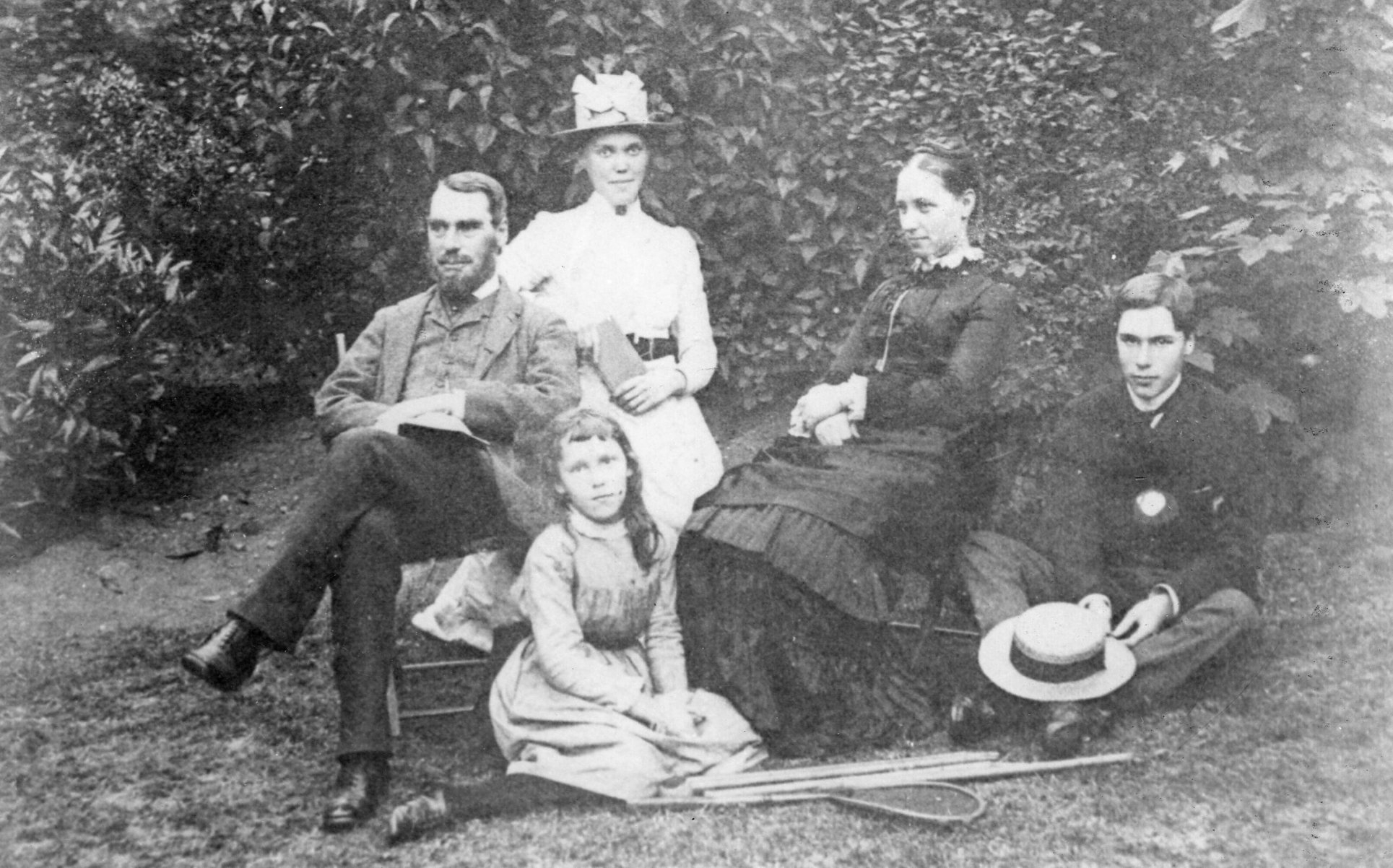 Henry and Emma Tabor, with Clara (later Rackham), Margaret and Francis